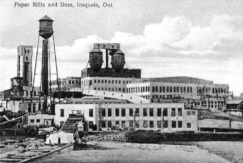 Abitibi Power and Paper Company - Iroquois Falls, Ontario, Canada.